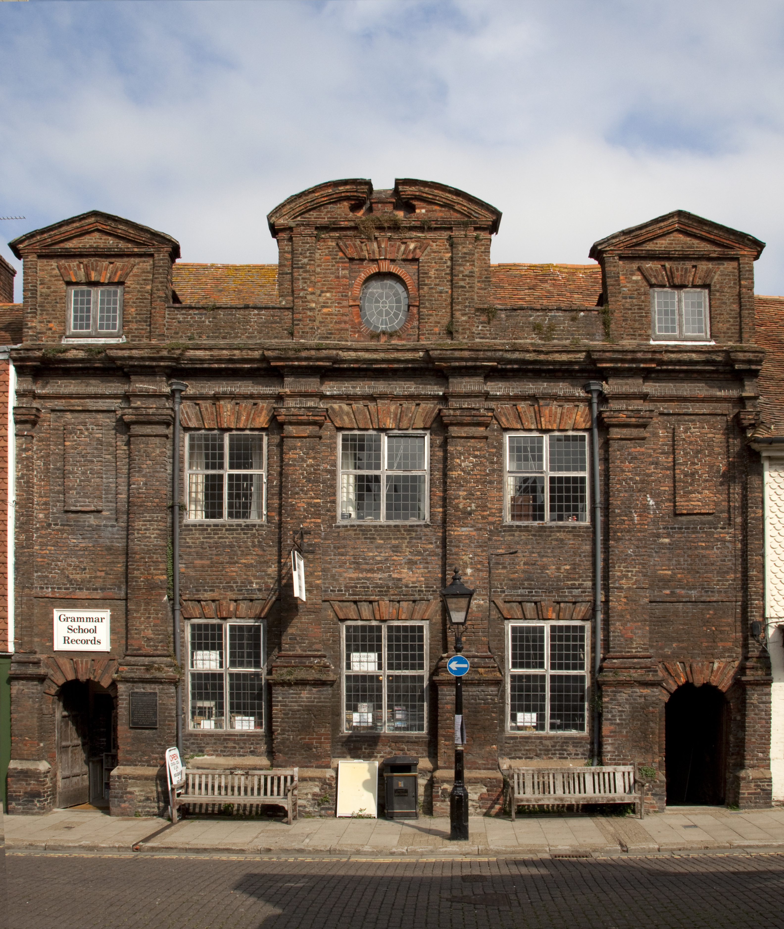 The old grammar school in the town of Rye, East Sussex, England. Founded by Sir Thomas Peacocke in 1636 as a free school 'for the better of Education and Breeding of Youth in good Literature', the building functioned as a school until 1907. The ground floor now houses a record shop, titled Grammar School Records.